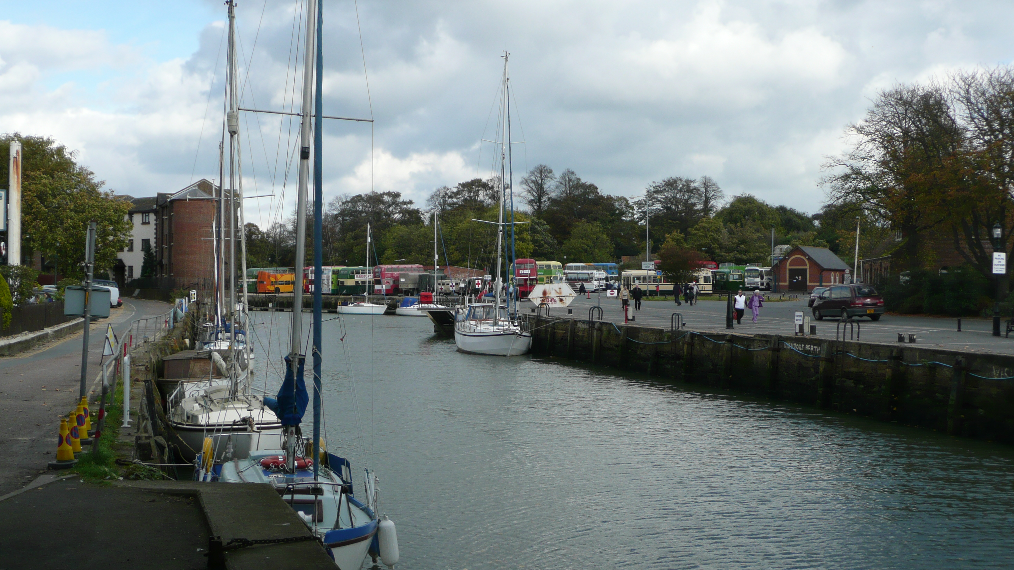 Newport Quay, Newport, Isle of Wight, seen on the day on the Isle of Wight bus museum's 2008 runing day, hence the buses.